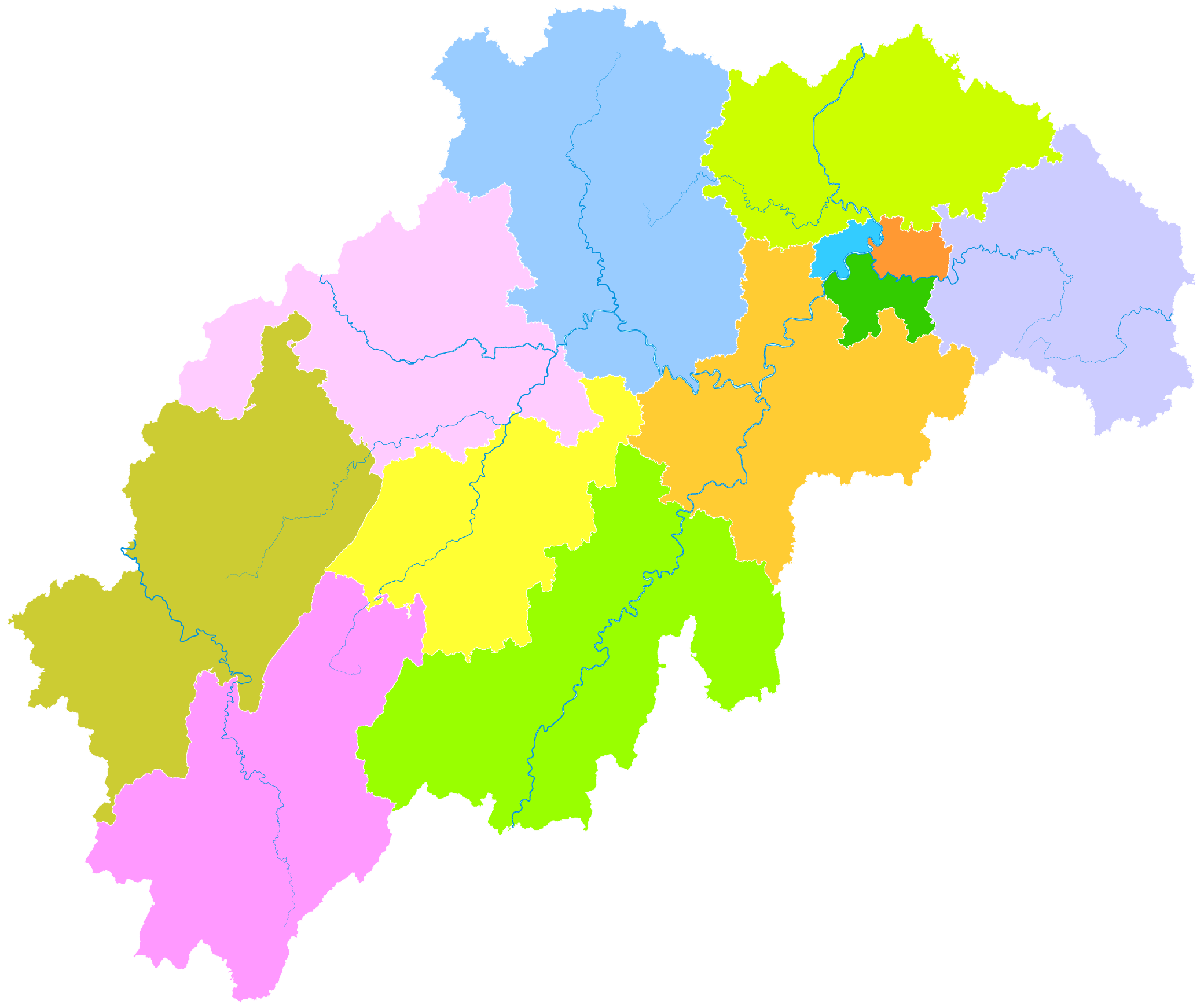 administrative divisions of Shaoyang City, Hunan, China